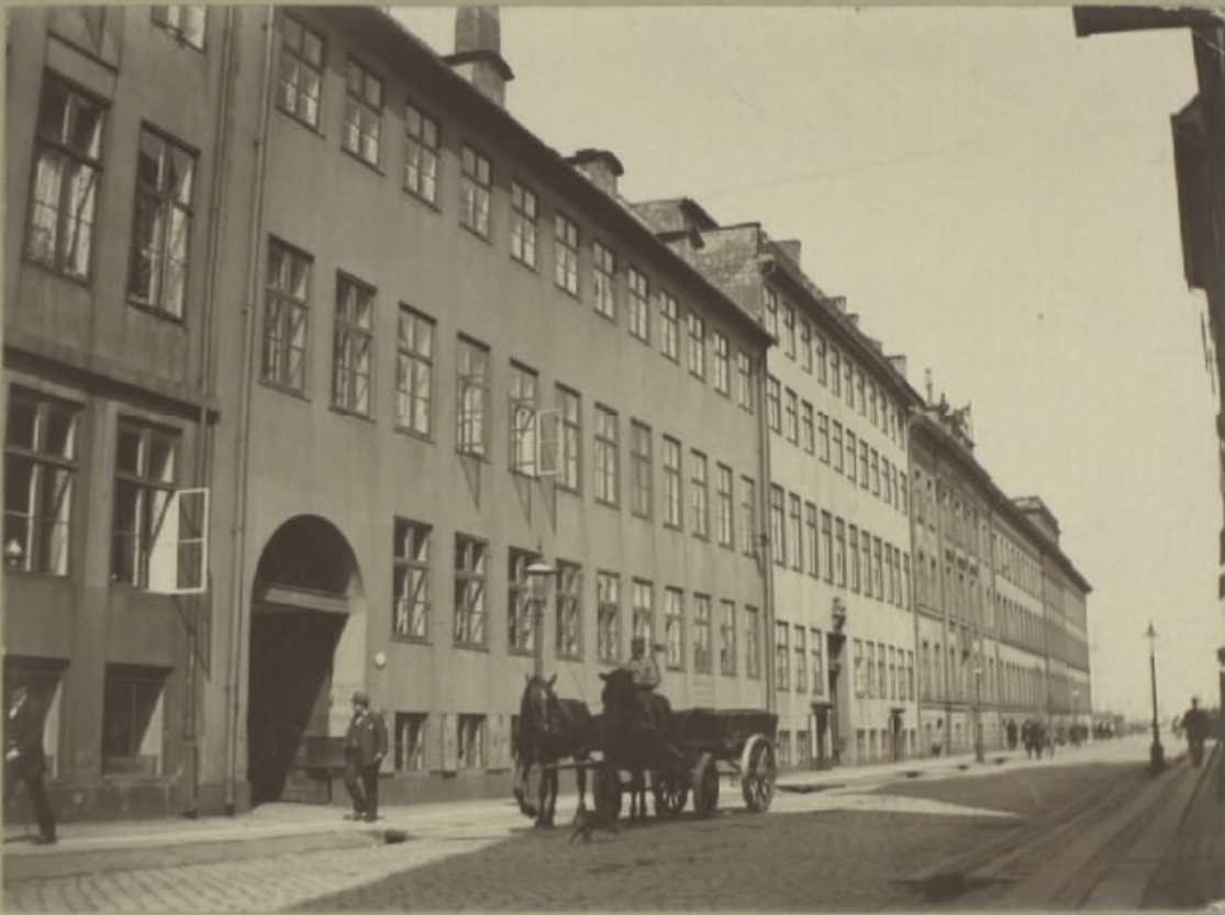 Kvæsthusgade 3 in Copenhagen, Denmark. The facade was altered in 1907.